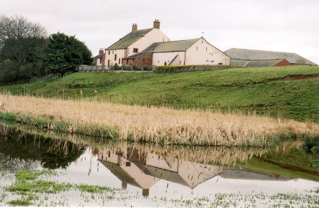 Bleatarn, looking across to Bleatarn Farm.